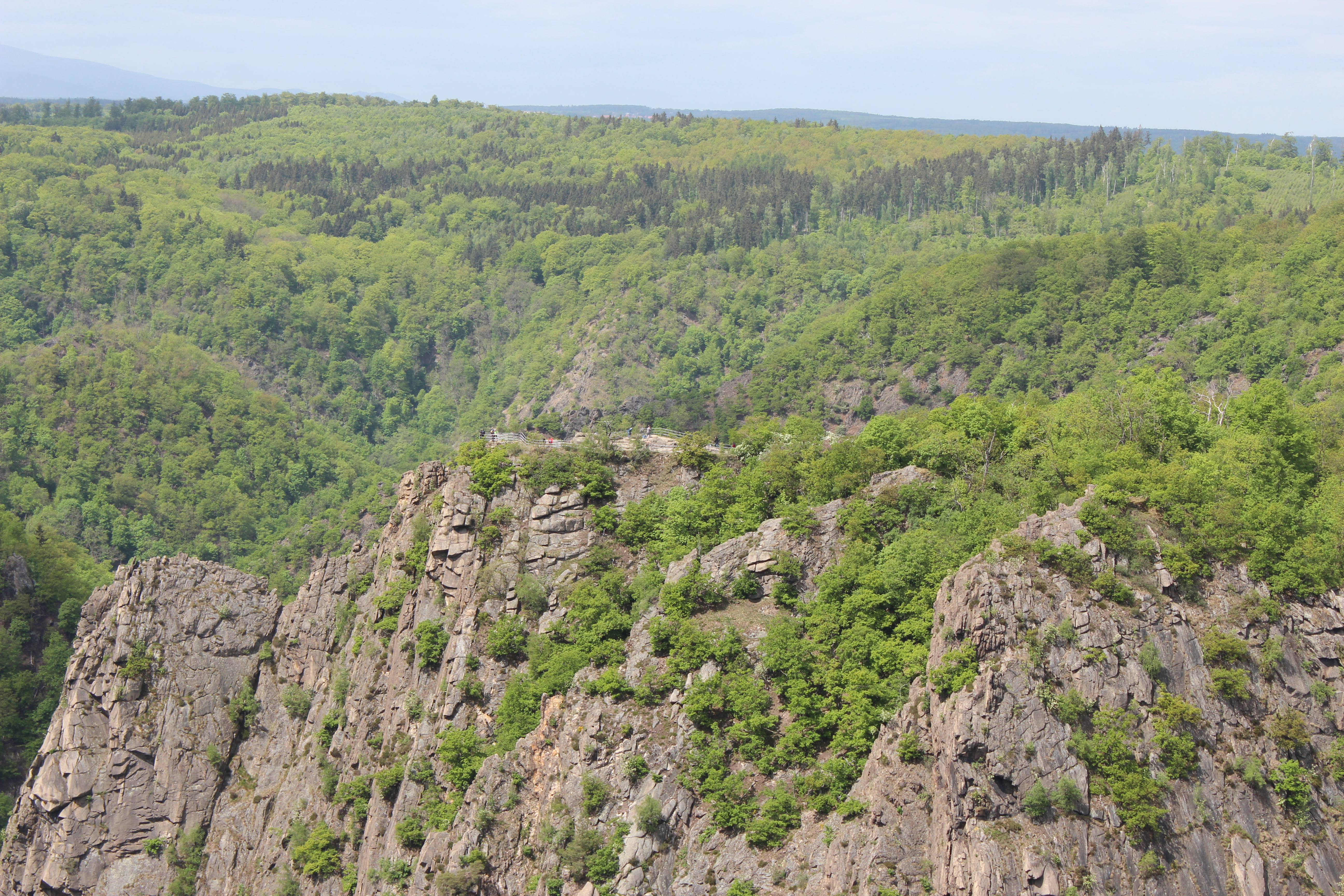 The Roßtrappe in the Harz mountain (Germany) viewed from the Hexentanzplatz